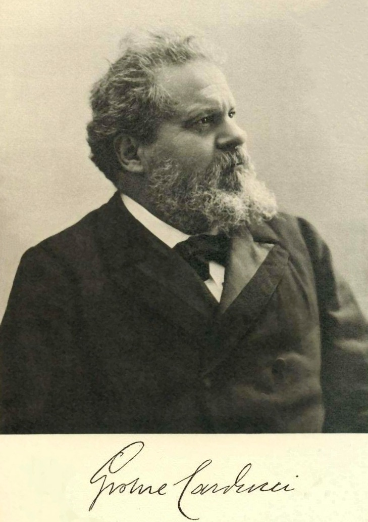 Giosuè Carducci (1835-1907)